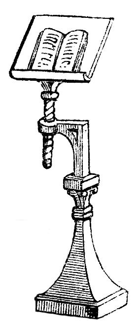 Detail from an image in Knight, Charles: “Old England: A Pictorial Museum” (1845).